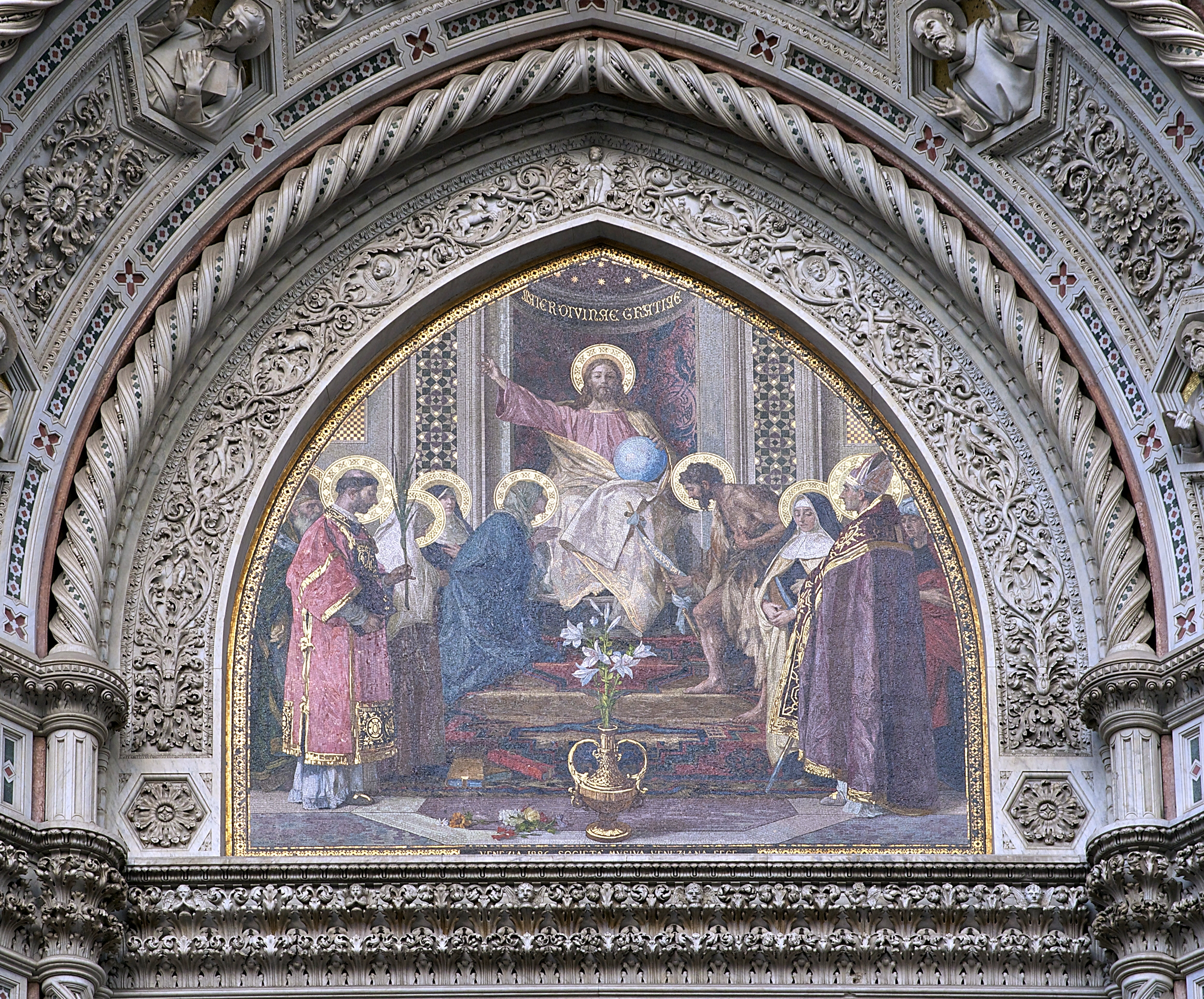 The 19th century gothic revival mosaic of the central tympanum (above the main gate) of the cathedral Santa Maria del Fiore in Florence, Italy. Made in Venice in 1886 after drawings by Nicolò Barabino, it shows Christ on throne, with Virgin Mary and Saint John the Baptist, and several local saints, among them Saint Reparata and Saint Zenobius, patron saints of the city, which is symbolized by the lilies in foreground.